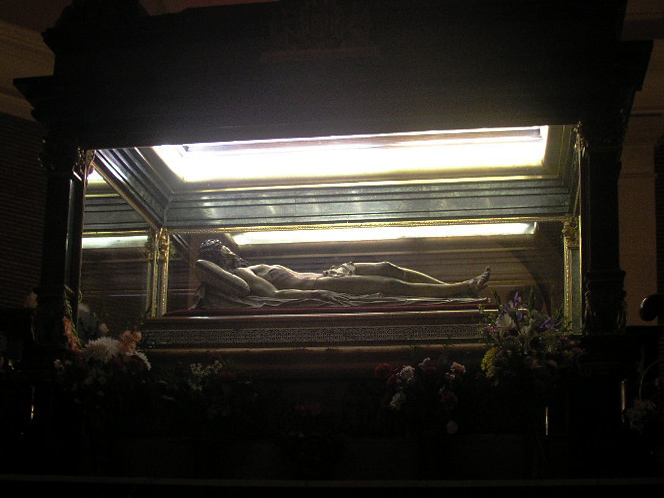 Santísímo Crísto de El Pardo, Seminario Serafico de Missiones Padres Capuchinos, El Pardo, Madrid. Sculpture made by Gregorío Hernández, Valladolid, in 1605, as thanksgiving for his son, Prince Philip, who later reigned as Philip IV. Félix Granda made the glass case with its statues in 1945. The photo was taken by Håkan Svensson (Xauxa) the 22nd of December 2003.